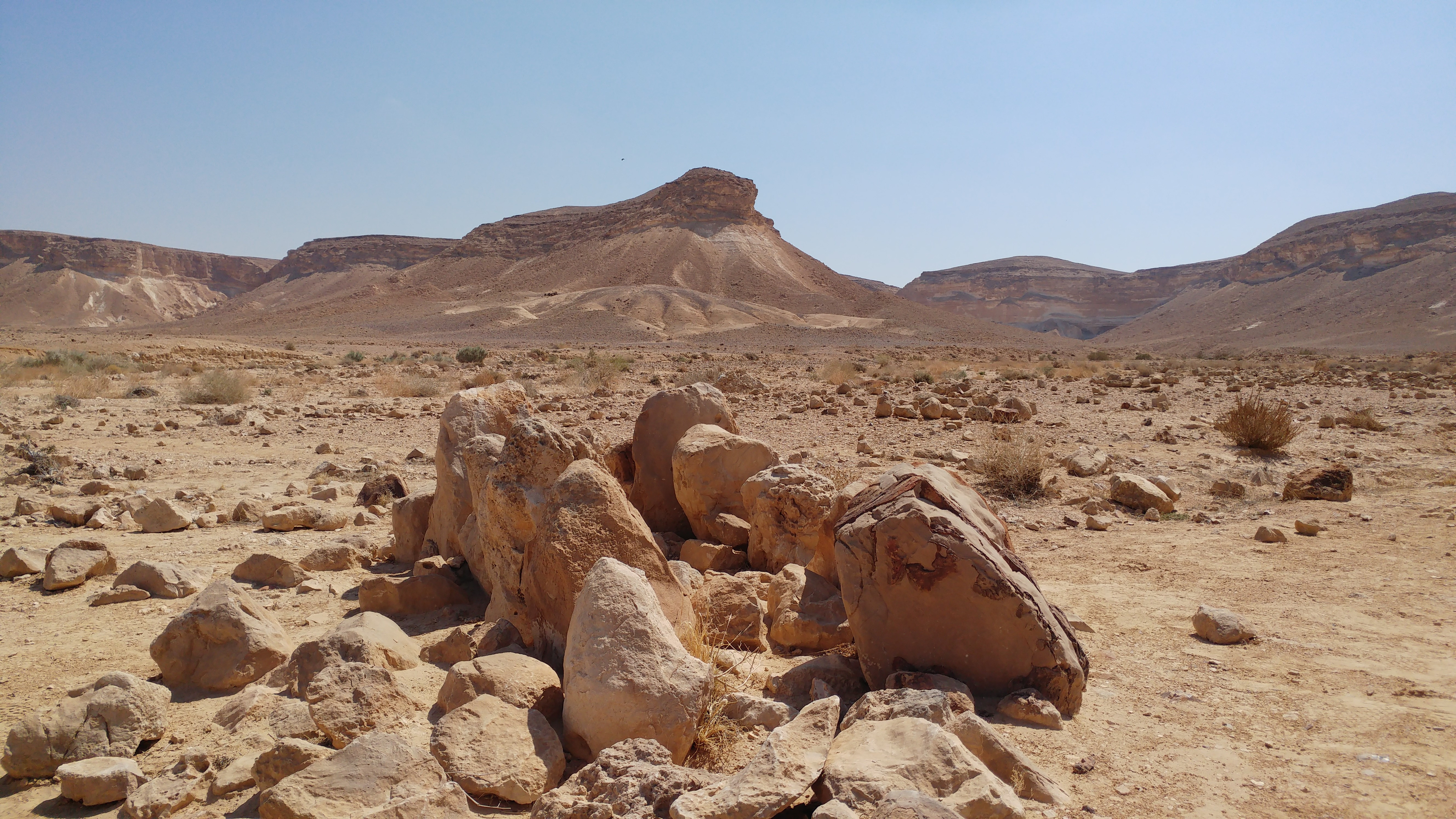 12 Headstones at the foot of Har Karkom ridge, Israel.